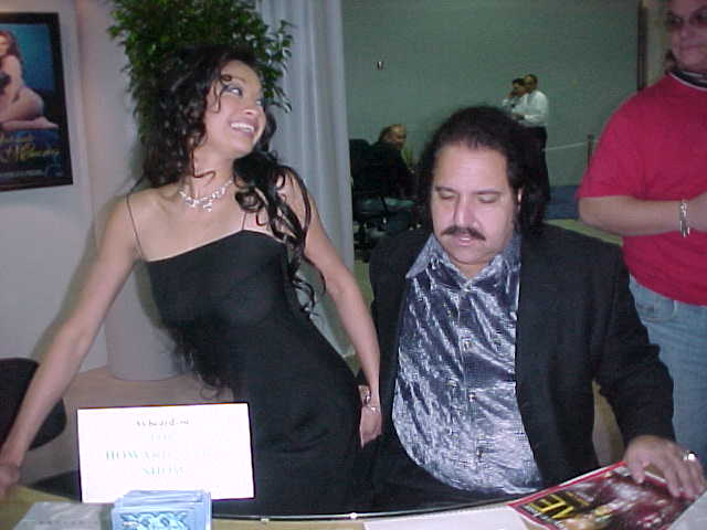 At CES January 6-9, 2000